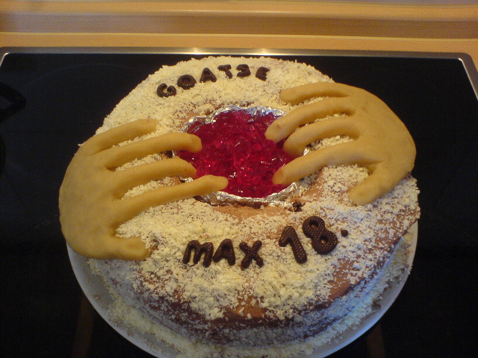 A tribute to Goatse.cz This is a own made cake for a friend.